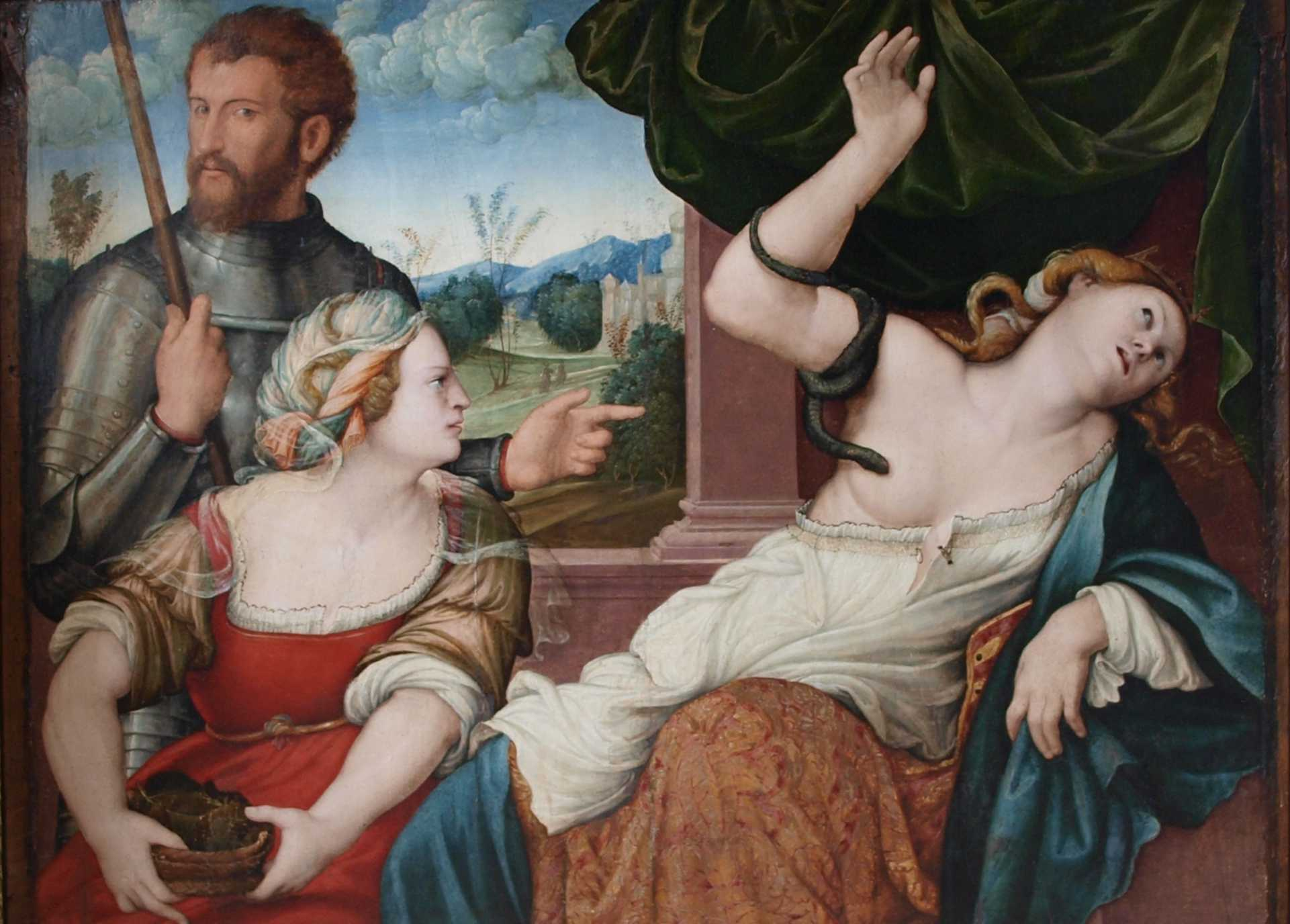 The Death of Cleopatra